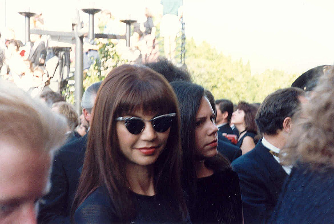 Victoria Principal on the red carpet at the Emmy Awards 1993 - Permission granted to copy, publish, broadcast or post but please credit "photo by Alan Light" if you can